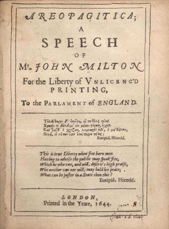 First page of Areopagitica, by John Milton